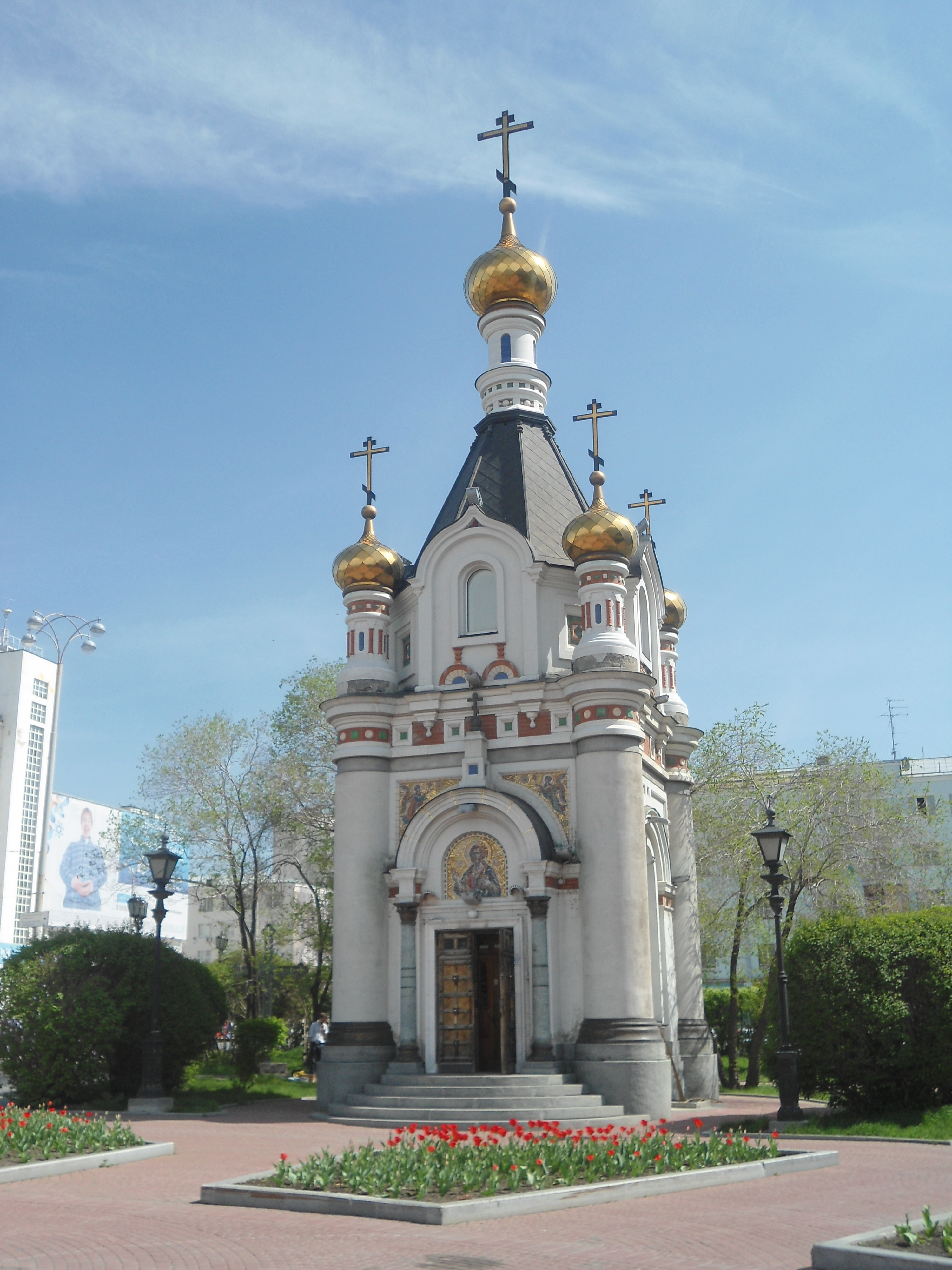 Orthodox chapel